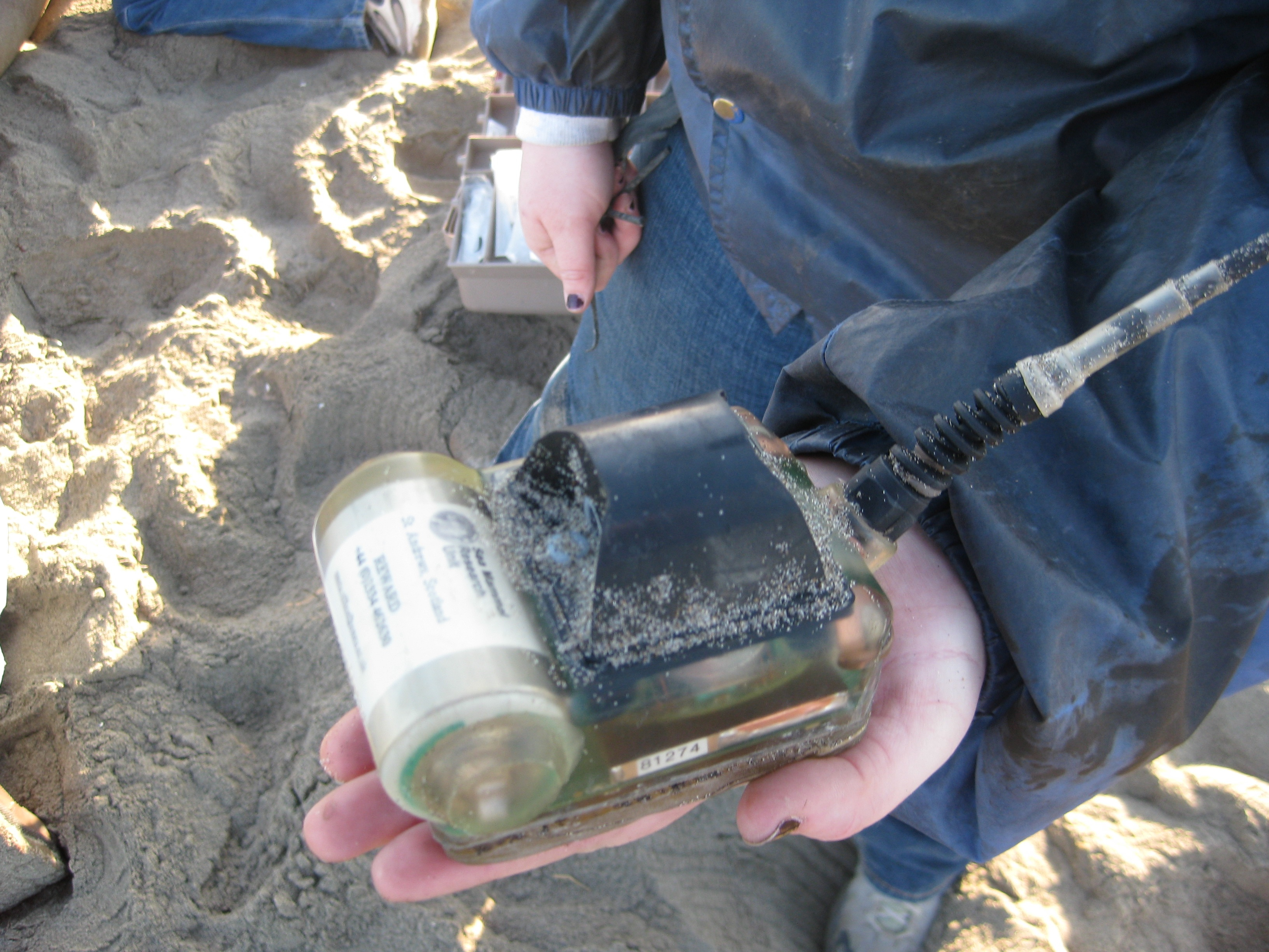 A researcher holding a CDT tag taken off an elephant seal at Año Nuevo State Reserve